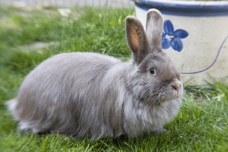 Swiss Foxrabbit